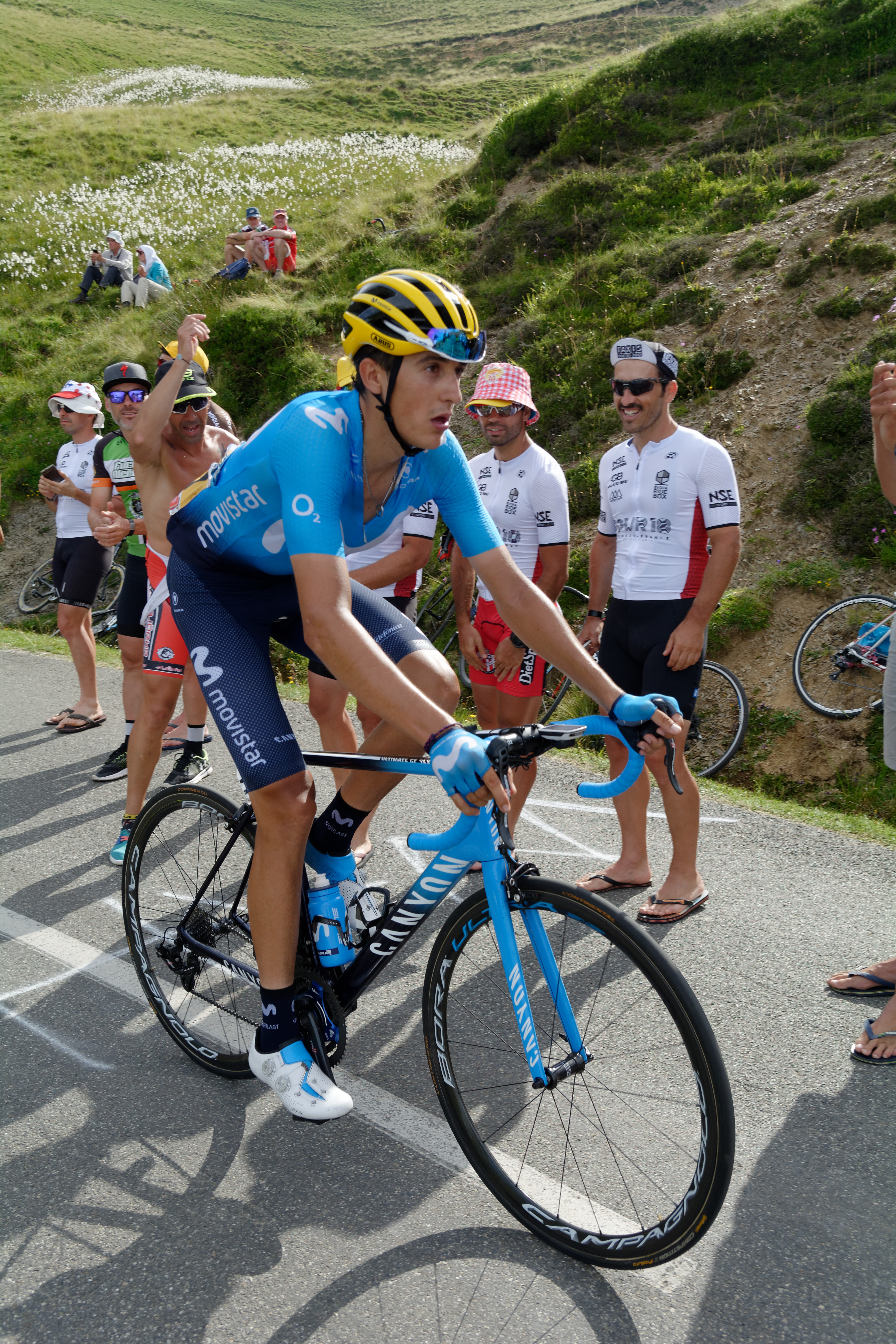 2018 Tour de France